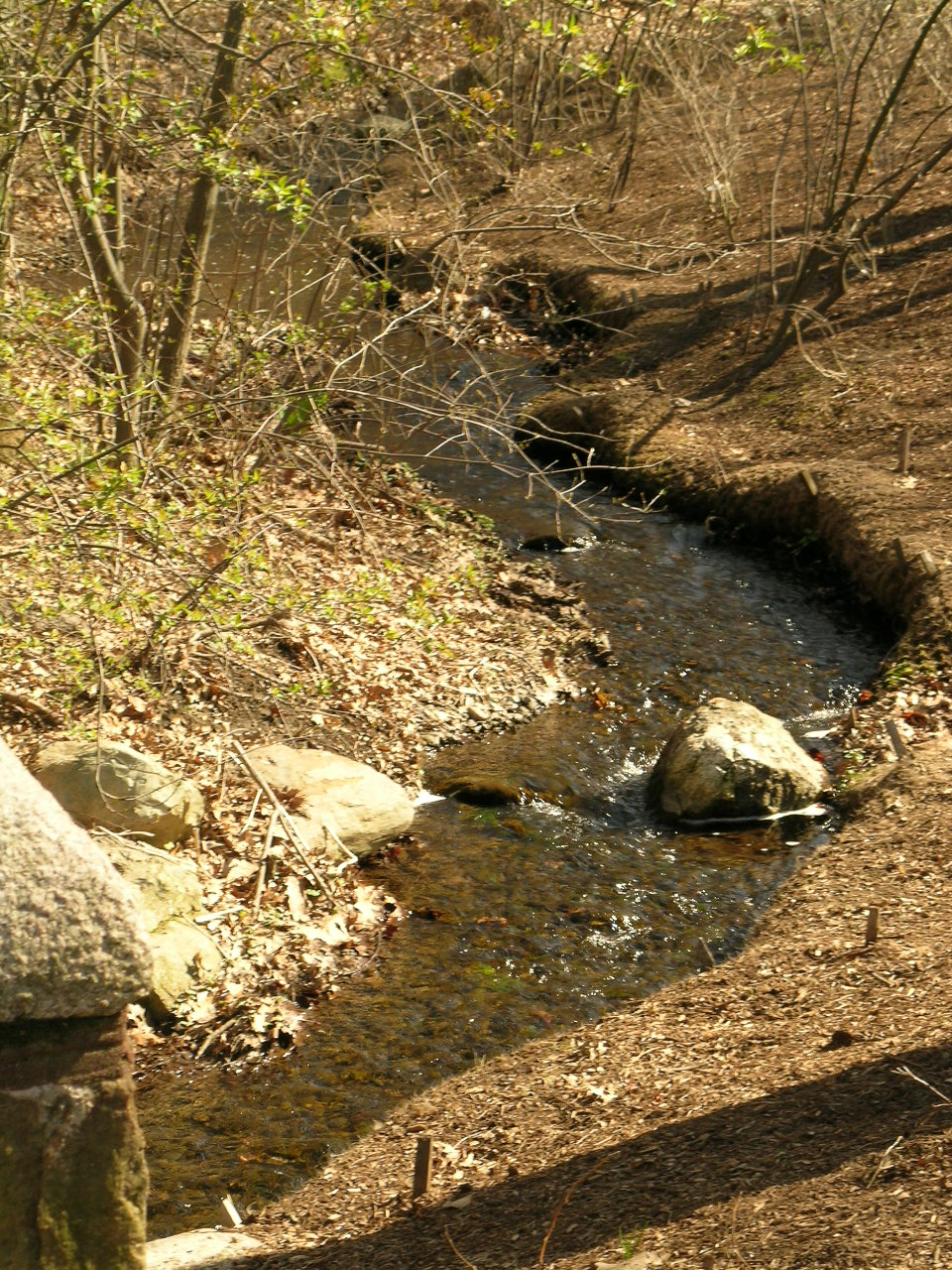 Early spring at the Muddy River in Olmsted Park in Jamaica Plain, Massachusetts. April 2008 photo by John Stephen Dwyer.